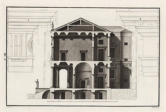 Palazzo Chiericati in Vicenza, by Andrea Palladio. Drawing by Ottavio Bertotti Scamozzi, 1776.